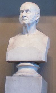 Bust of John Quincy Adams by John Crookshanks King (1806-1882), located within Faneuil Hall, Boston, Massachusetts, USA.